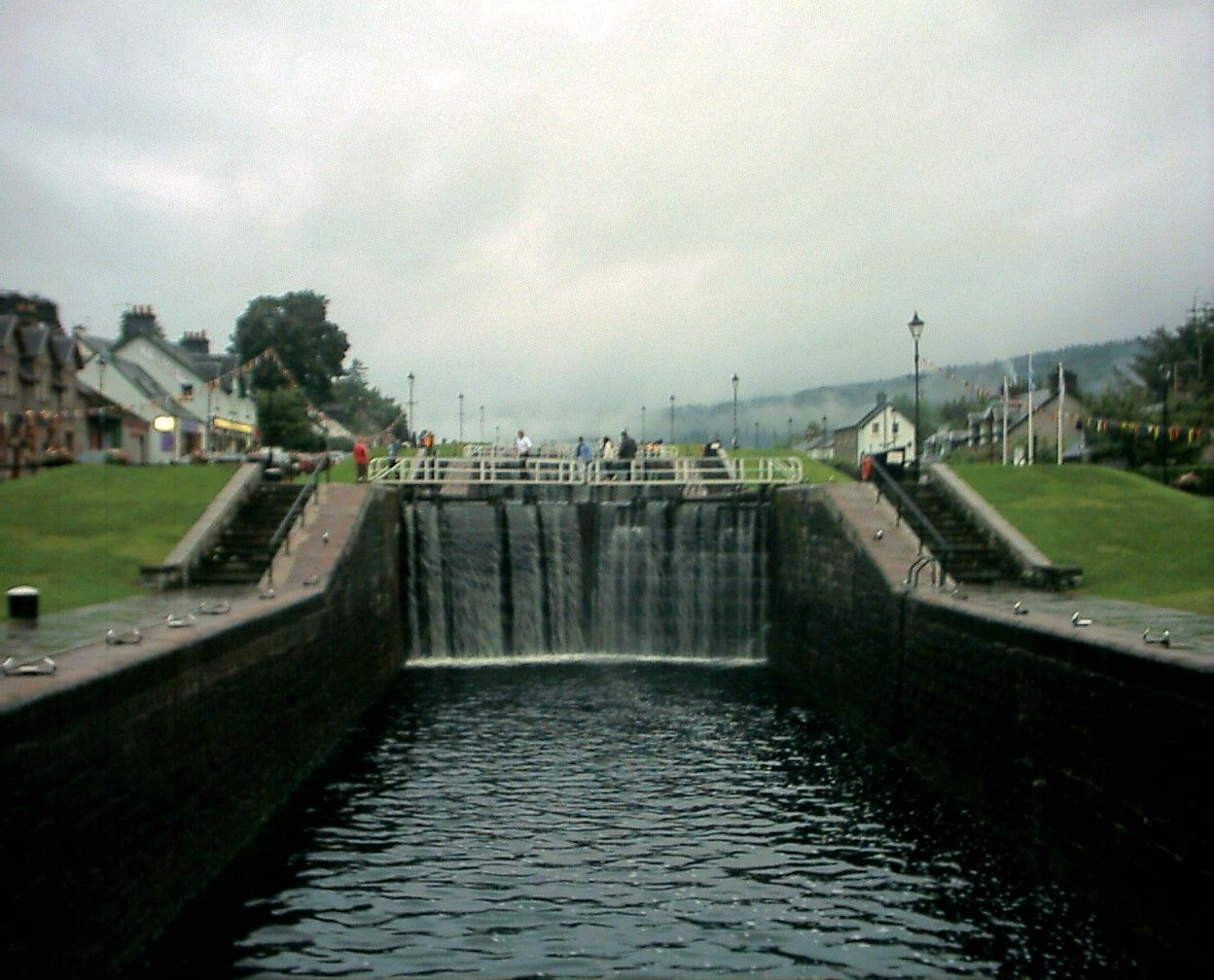 Caledonian Canal in Fort Augustus, Scotland Author: Wojsyl, 2002